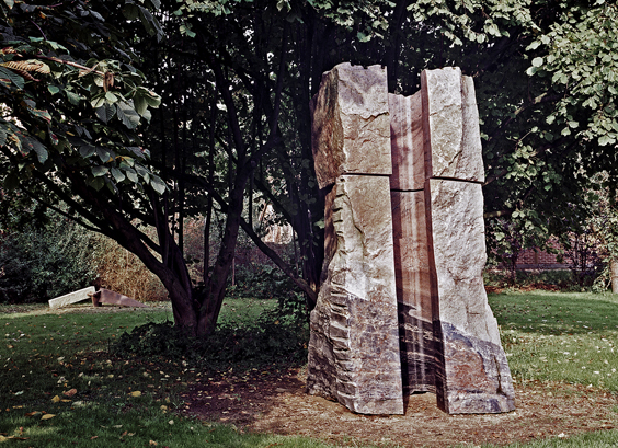 Sculpture by Klaus Müller-Klug and on the background a sculpture by Hartmut Stielow